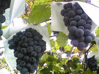 Black muscat grapes on the vine.